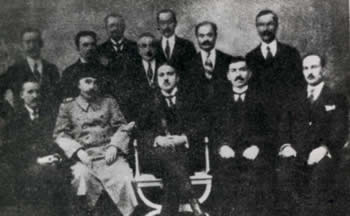 Members of the Society of Dermatopathology (Emraz-ı Cildiye ve Efrenciye Cemiyeti), 1919. Front row (right to left): Emil Orfanidis, Ali Rıza (Atasoy), Şükrü Mehmet Sekban, Talat Çamlı and Rober Abimelek, rear row: M. Rüştü, Osman Salman, Hasan Reşat (Sığındım), İzzet Kamil, Bujes, Karakoç, Ali Rıza.